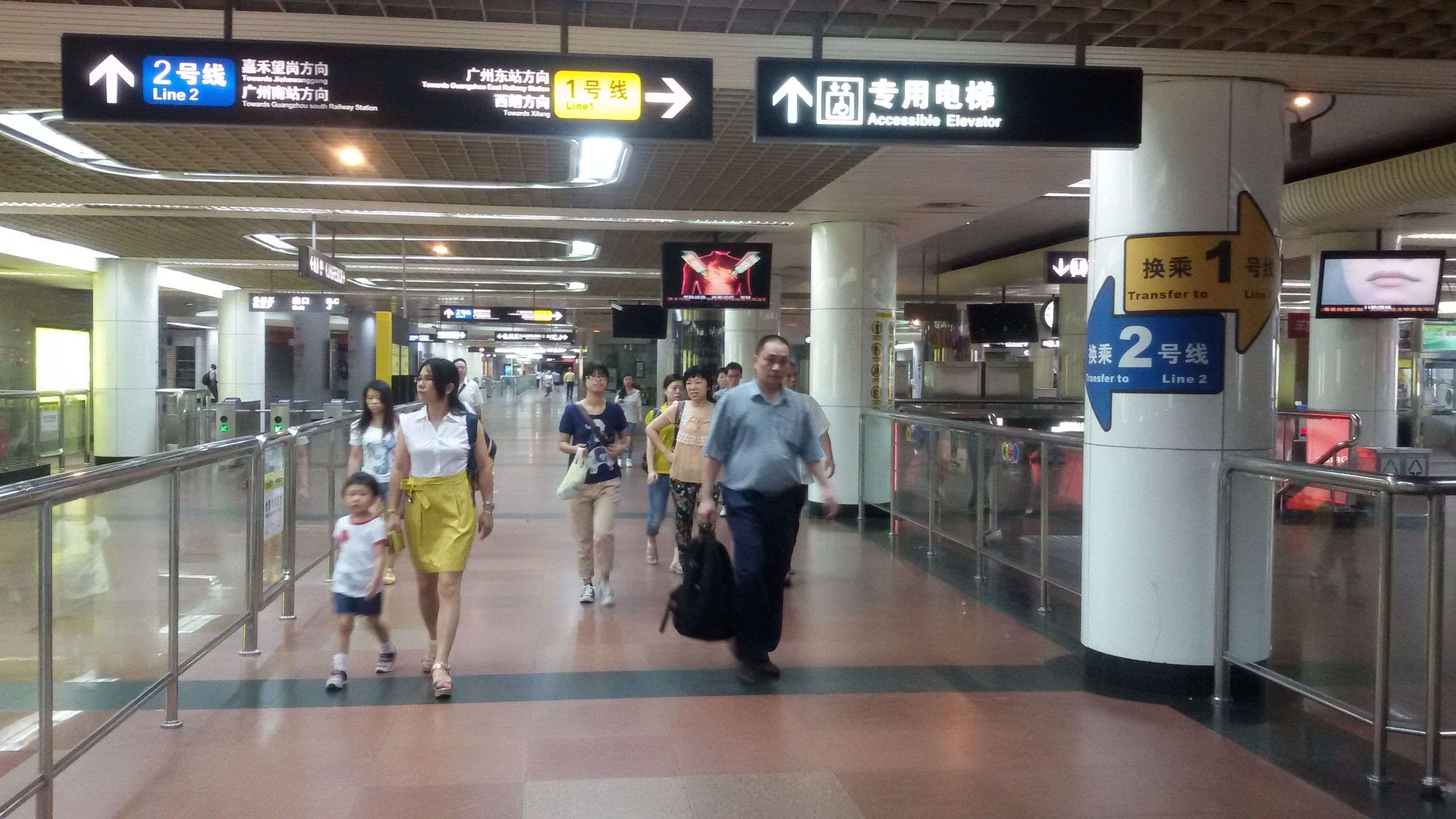 Station Concourse on the west for Gongyuanqian Station. 粵語: 公園前站嘅1號綫西站廳